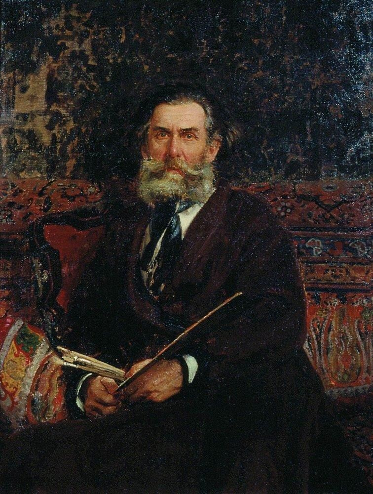 Portrait of the painter Alexey Petrovich Bogoliubovlabel QS:Lde,"Porträt des Males Alexey Petrovich Bogoliubov"label QS:Len,"Portrait of the painter Alexey Petrovich Bogoliubov"label QS:Les,"Retrato del pintor Alexéi Petróvich Bogoliubov"label QS:Lru,"Портрет художника Алексея Петровича Боголюбова"